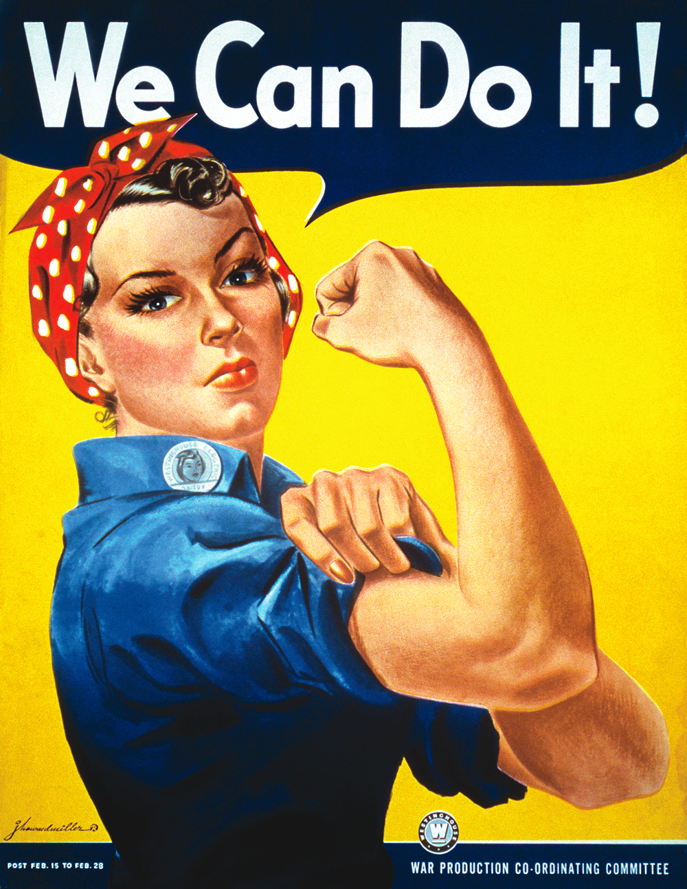 "We Can Do It!" poster for Westinghouse, closely associated with Rosie the Riveter, although not a depiction of the cultural icon itself. Model may be Geraldine Doyle (1924-2010) or Naomi Parker.